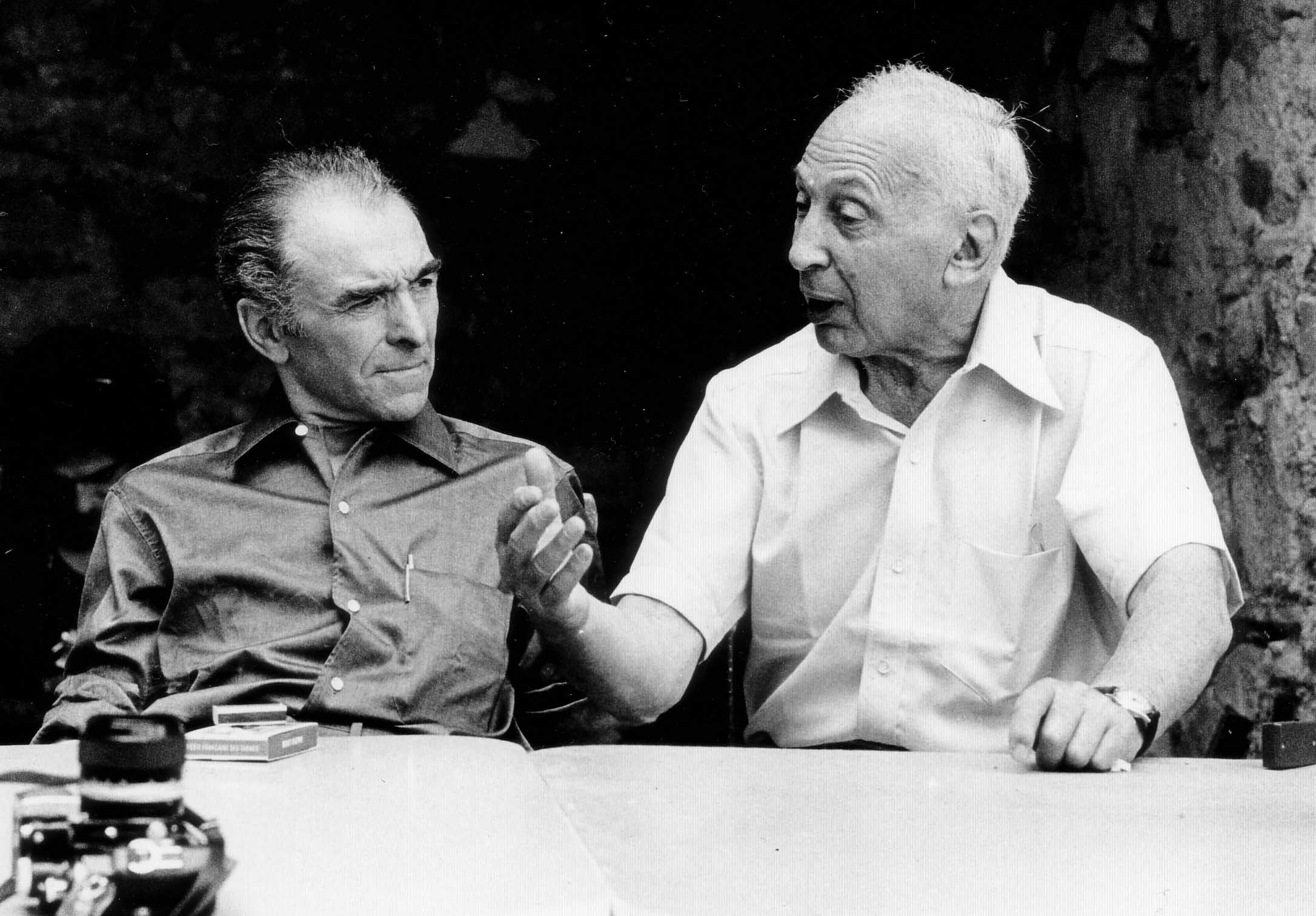 Photographers Robert Doisneau (left) and André Kertész, during a talk in Southern France, 1975. The photograph was taken during '6èmes Rencontres Internationales de la Photographie', Arles, 1975. Nikon 85mm lens.